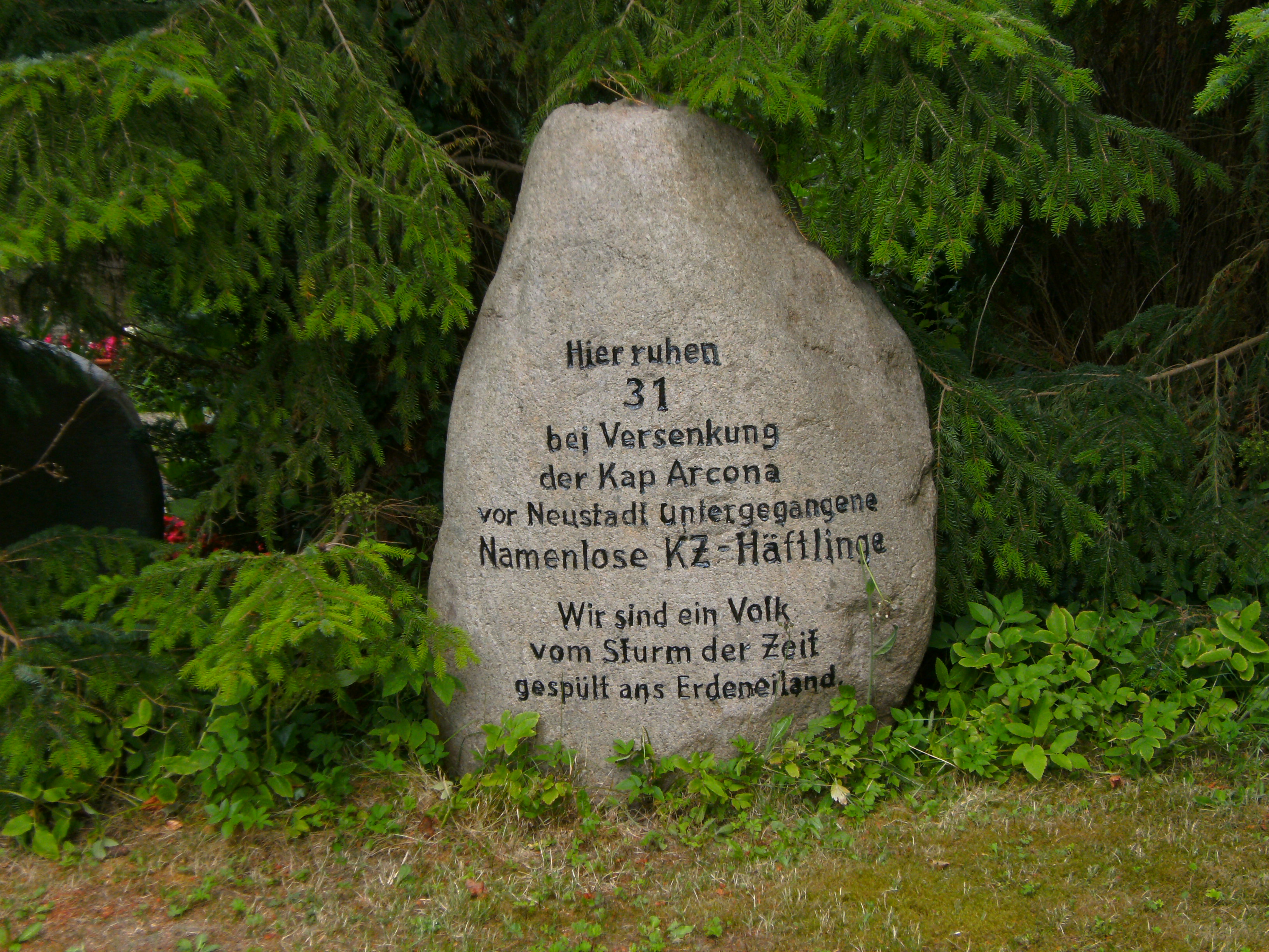 There is a mass grave in Grube (Holstein) for 31 concentration camp inmates, who died by the Cap Arcona catastrophy. The graveyard is at the street B 501 at the outskirts of the village. A memorial stone at the right side of the cemetery chapel marks the mass grave.